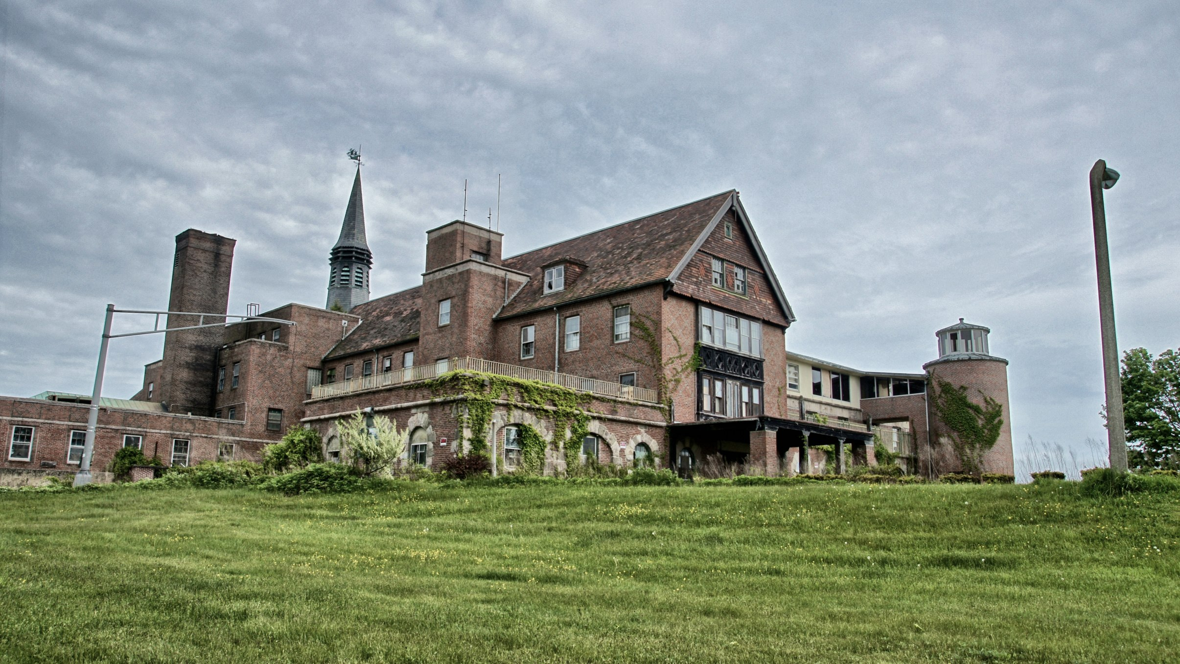 Seaside Sanitorium, Waterford, CT